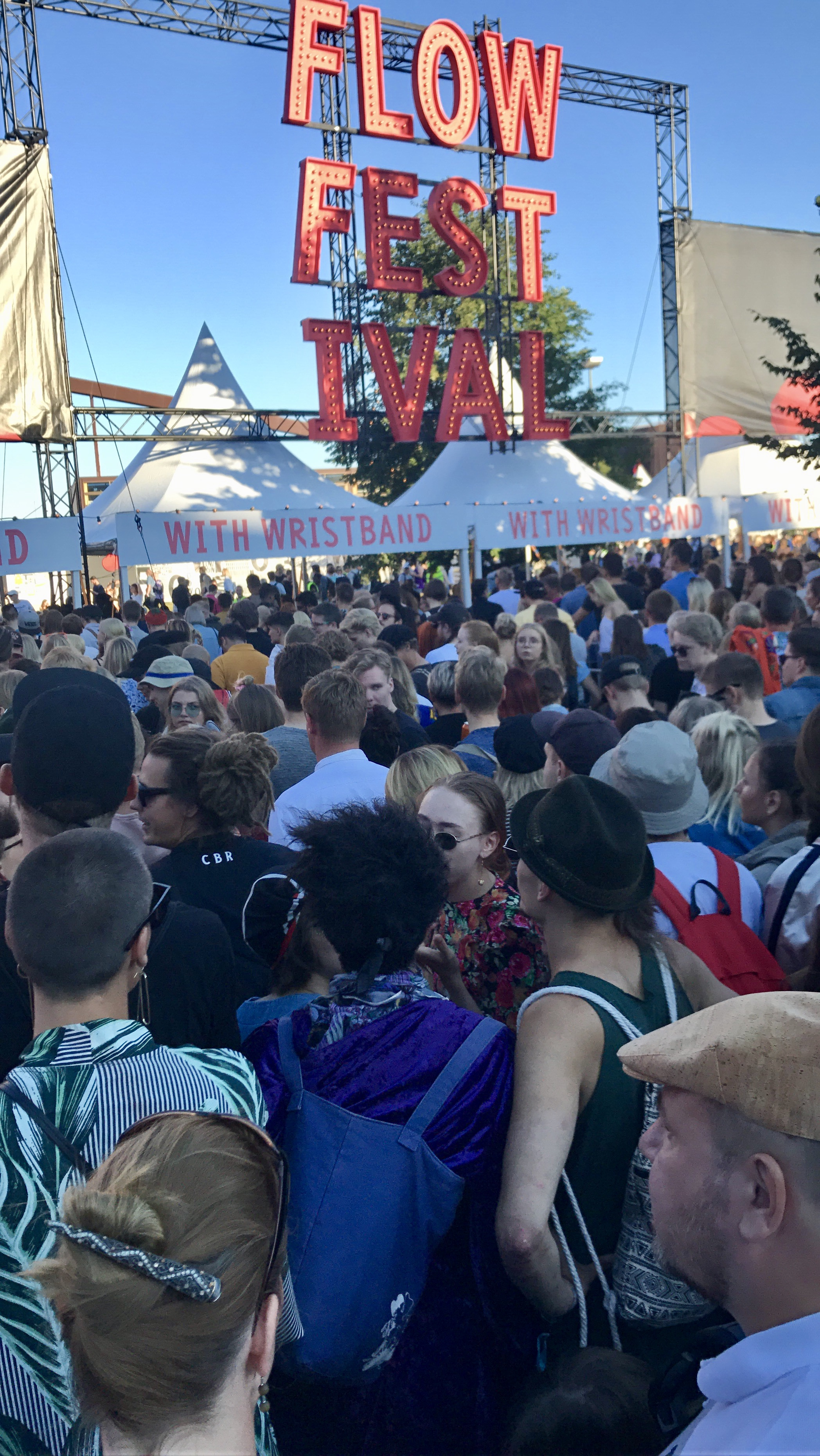 Flow Festival 2017.